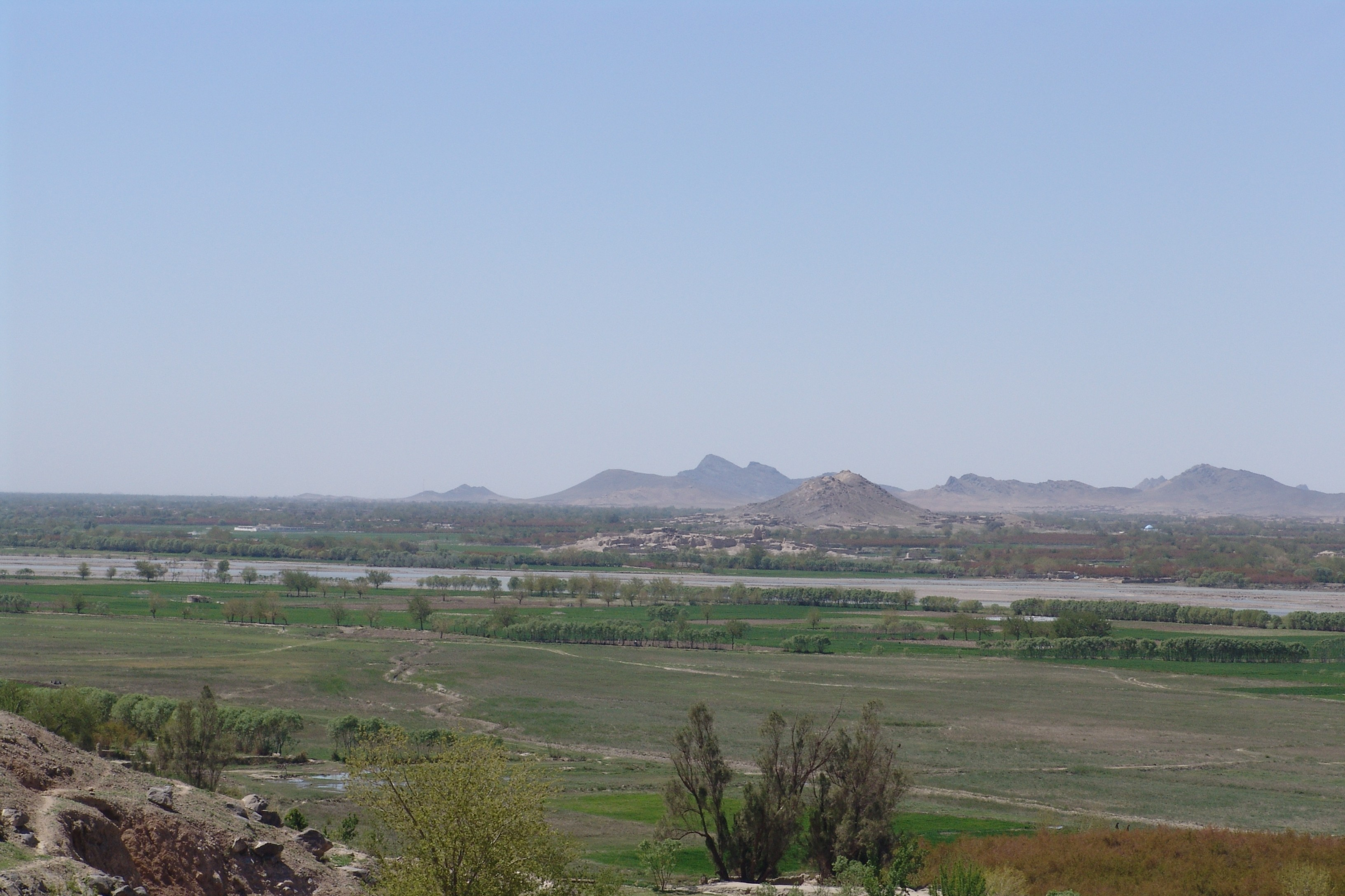 I, NisarKand, am the author of this work and give permission to everyone to copy and share this image as long as it is for a normal good cause.